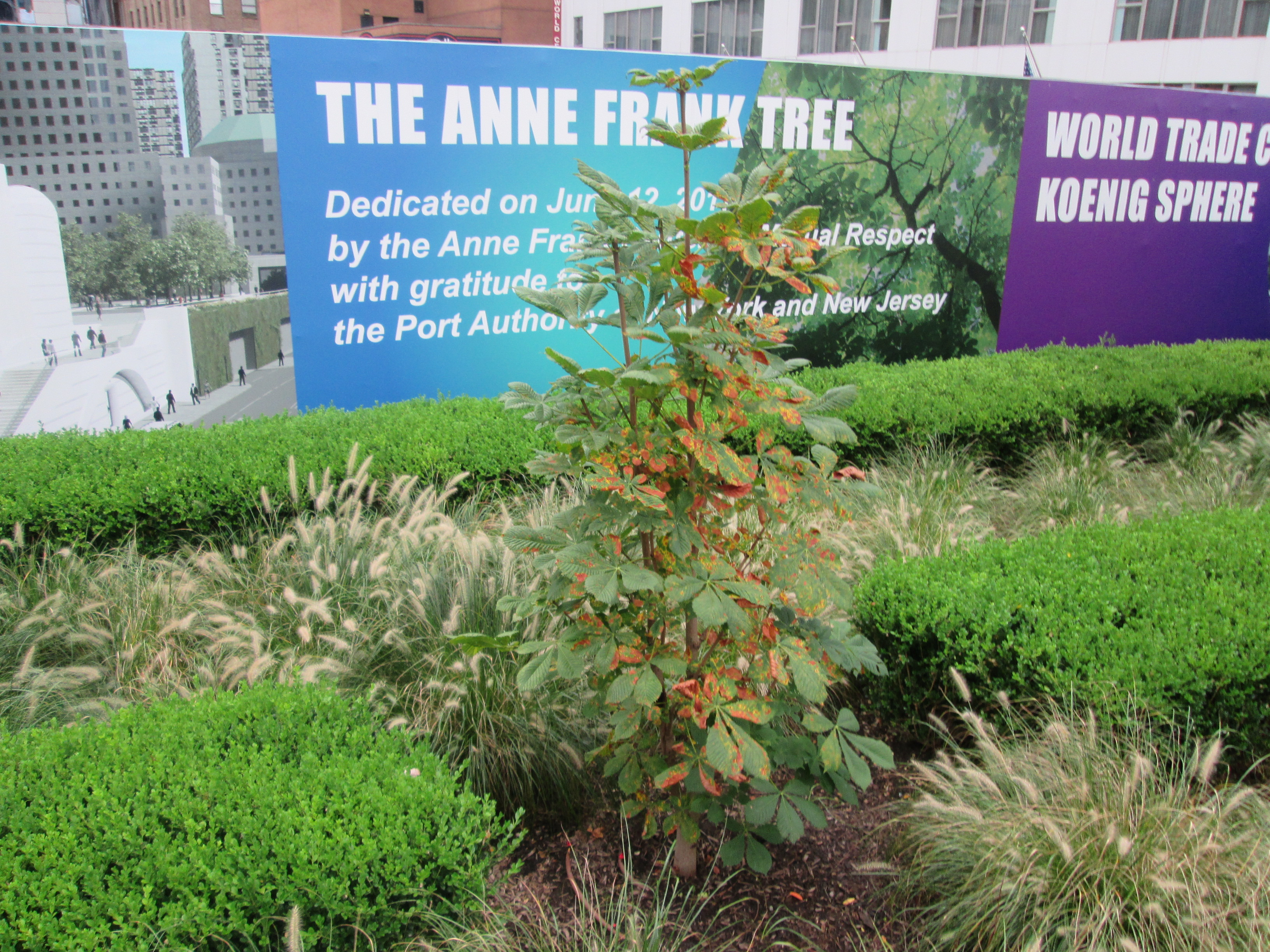 Anne Frank Tree at Liberty Park in New York City, seen in September 2018